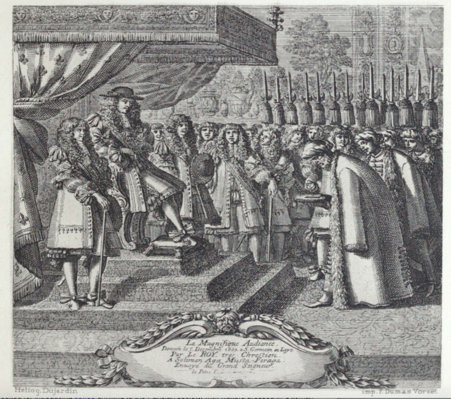 Sulemain Aga, Ottoman envoy to Louis XIV